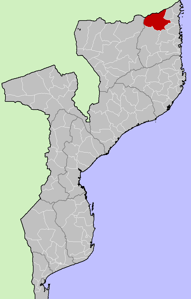 District locator in Mozambique